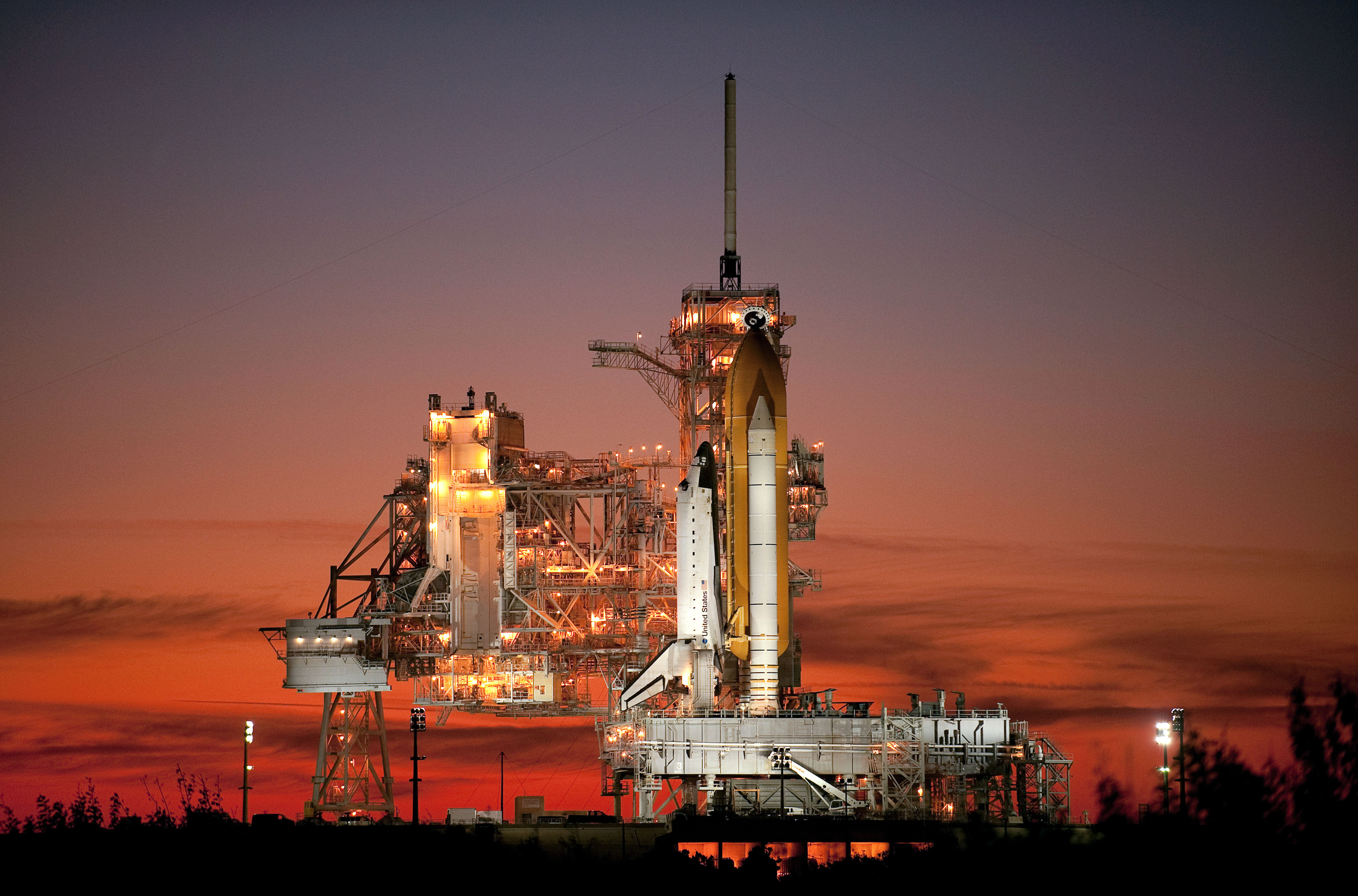 The Space Shuttle Atlantis is seen on launch pad 39A at the NASA Kennedy Space Center shortly after the rotating service structure was rolled back on Nov. 15, 2009. Atlantis is scheduled to launch at 2:28 p.m. EST, Nov. 16, 2009.